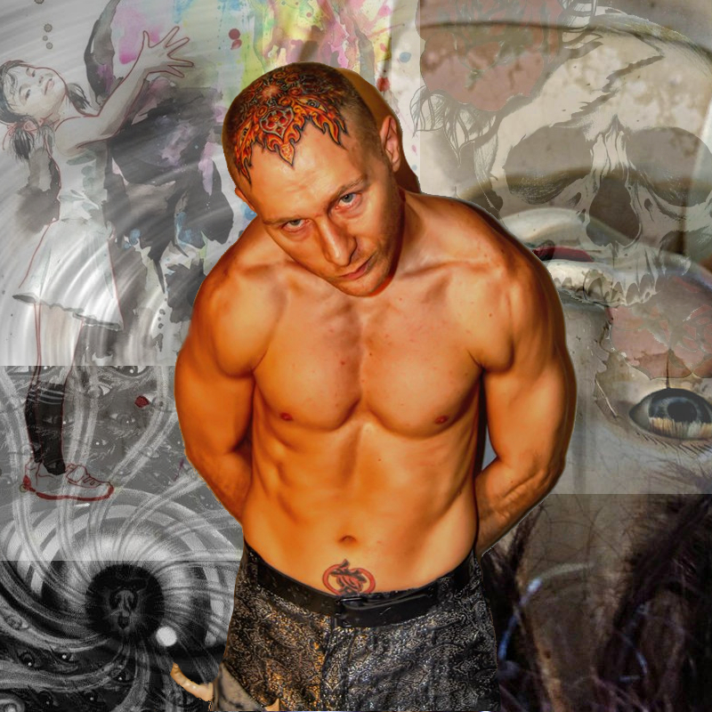 Photograph of professional wrestler Jason Kincaid, taken in March, 2018.